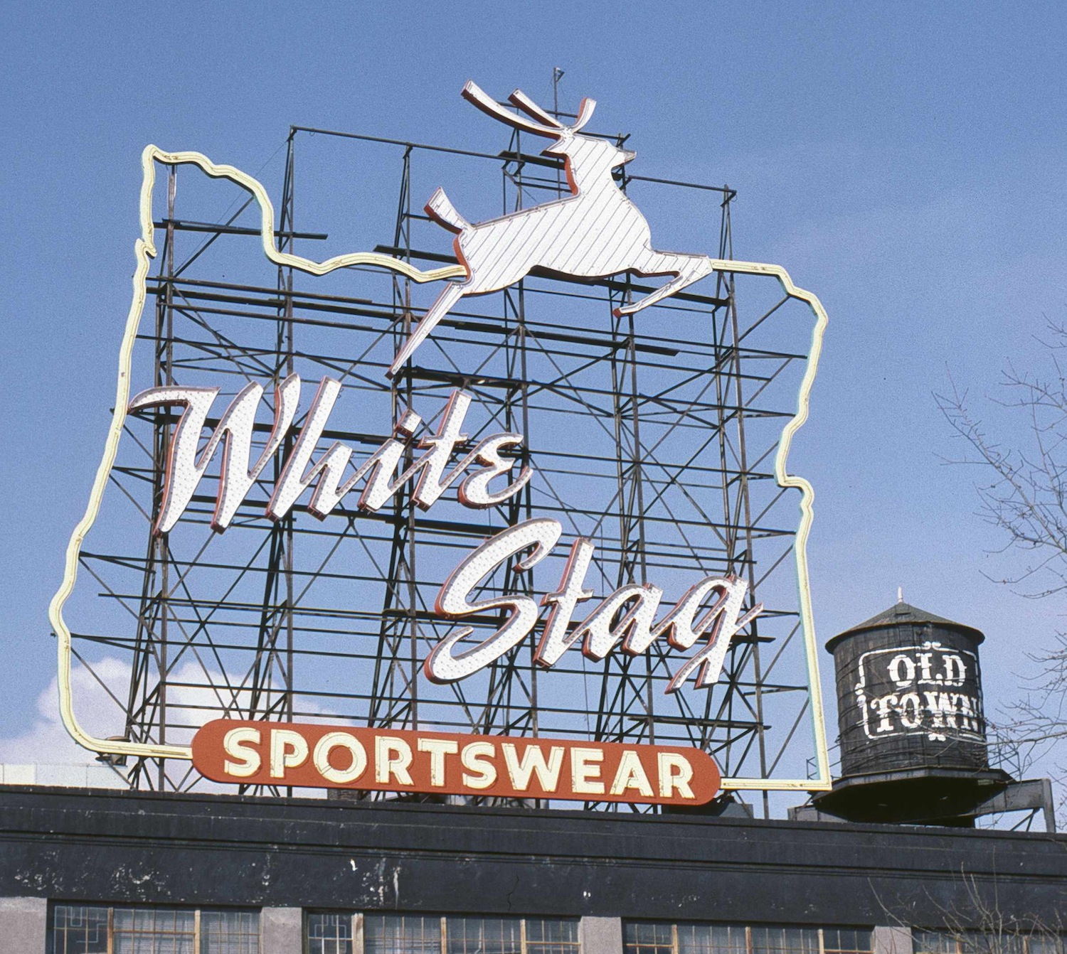 The White Stag Sign, in Portland, Oregon. The sign displayed this wording from 1957 until 1997. The basic structure has been in place since 1941, and the leaping stag – added in 1957 – remains on the sign today (2014). The yellow outline symbolizes the boundaries of Oregon.